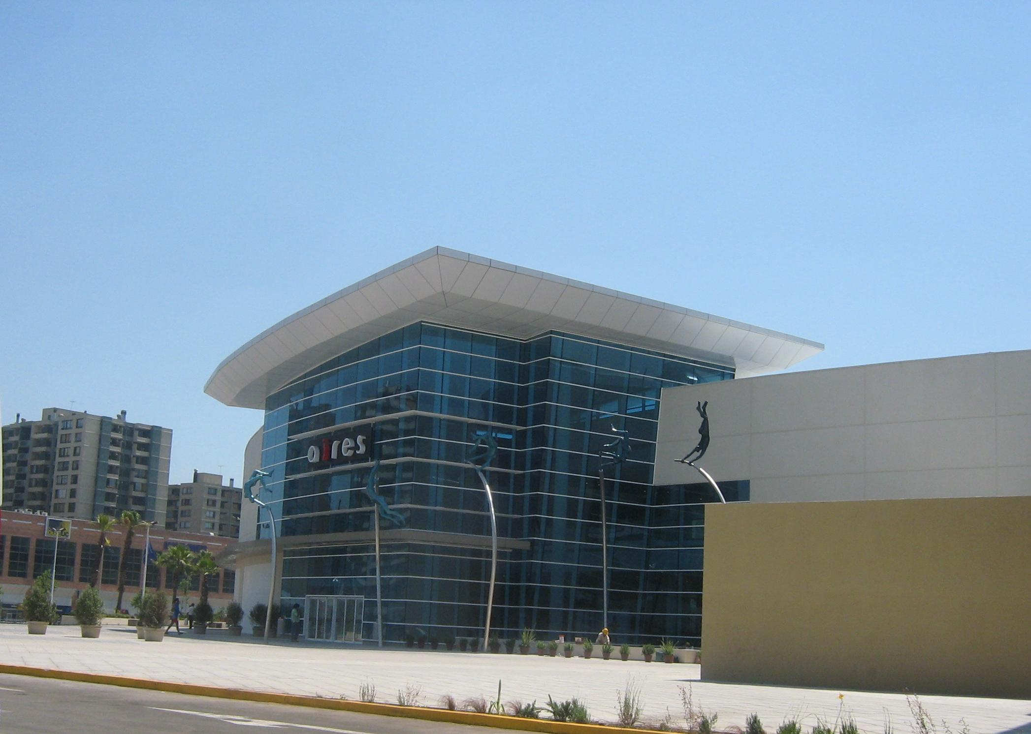 Shopping Center Aires, La Florida, Santiago de Chile.